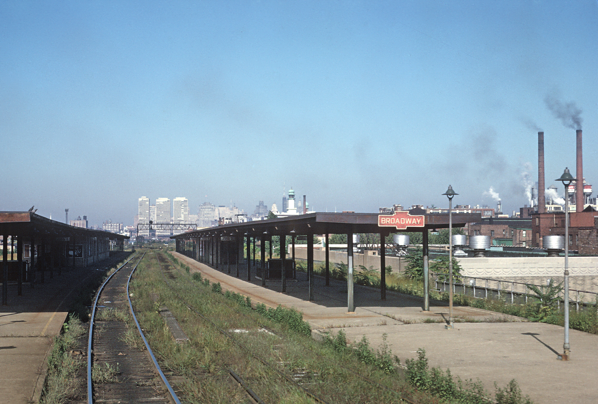 Pennsylvania-Reading Seashore Lines Broadway station in Camden, New Jersey on September 2, 1965. Broadway was originally an intermediate station that served downtown Camden; after 1936 it offered a connection to the Bridge Line. On January 4, 1953, the PRR closed Camden Terminal and ended cross-river ferry service; Broadway became the terminal station, with all Philadelphia-bound passengers forced to transfer to the Bridge Line. The PRSL ended service on January 14, 1966; PRSL service was extended to Philadelphia over the Delair Bridge until February 15, 1969, when it was cut back to Lindenwold when PATCO opened.